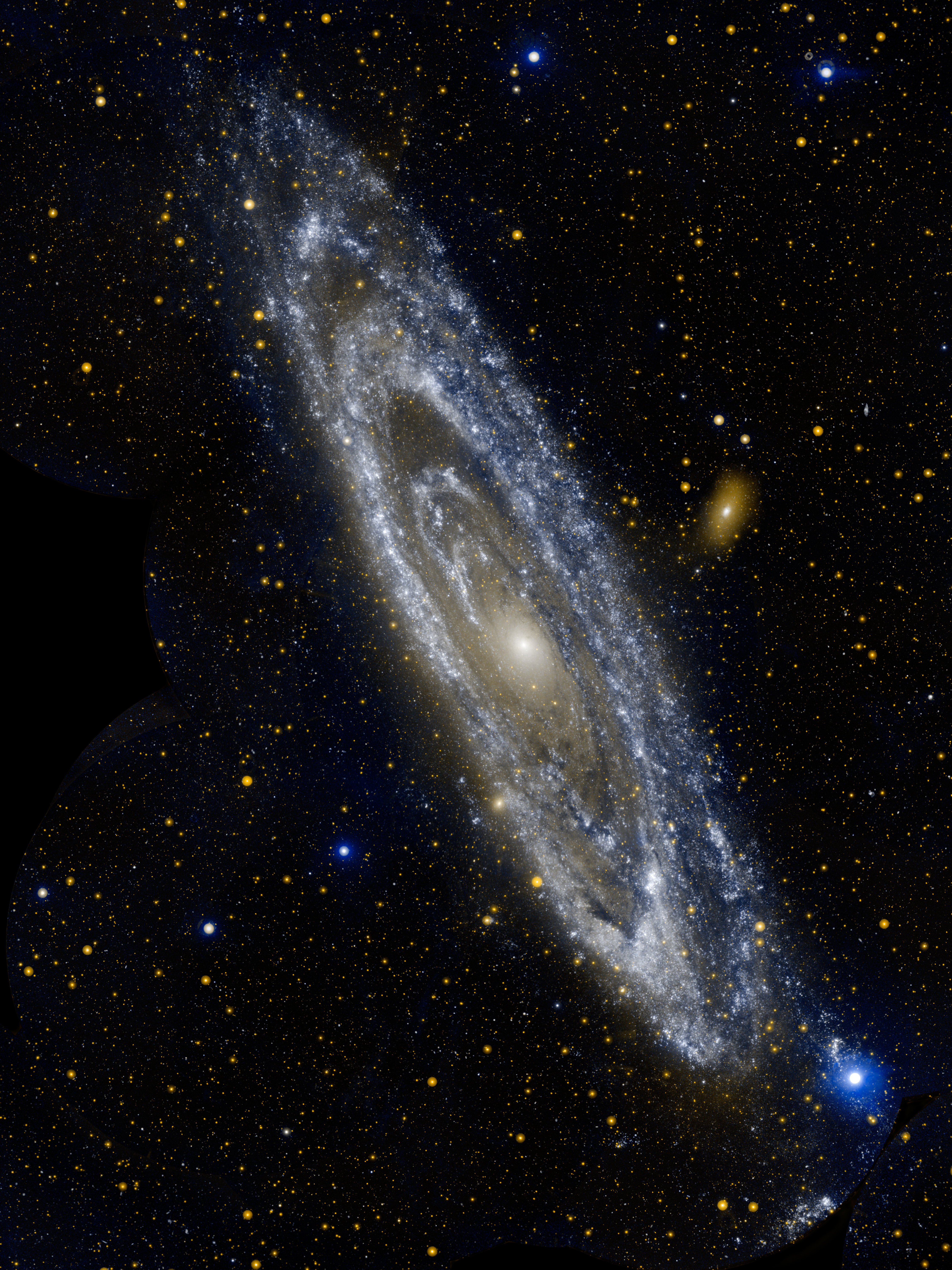 Hot stars burn brightly in this image from NASA's Galaxy Evolution Explorer, showing the ultraviolet side of a familiar face. At approximately 2.5 million light-years away, the Andromeda galaxy, or M31, is our Milky Way's largest galactic neighbor. The entire galaxy spans 260,000 light-years across -- a distance so large, it took 11 different image segments stitched together to produce this view of the galaxy next door. The bands of blue-white making up the galaxy's striking rings are neighborhoods that harbor hot, young, massive stars. Dark blue-grey lanes of cooler dust show up starkly against these bright rings, tracing the regions where star formation is currently taking place in dense cloudy cocoons. Eventually, these dusty lanes will be blown away by strong stellar winds, as the forming stars ignite nuclear fusion in their cores. Meanwhile, the central orange-white ball reveals a congregation of cooler, old stars that formed long ago. When observed in visible light, Andromeda’s rings look more like spiral arms. The ultraviolet view shows that these arms more closely resemble the ring-like structure previously observed in infrared wavelengths with NASA’s Spitzer Space Telescope. Astronomers using Spitzer interpreted these rings as evidence that the galaxy was involved in a direct collision with its neighbor, M32, more than 200 million years ago. Andromeda is so bright and close to us that it is one of only ten galaxies that can be spotted from Earth with the naked eye. This view is two-color composite, where blue represents far-ultraviolet light, and orange is near-ultraviolet light.